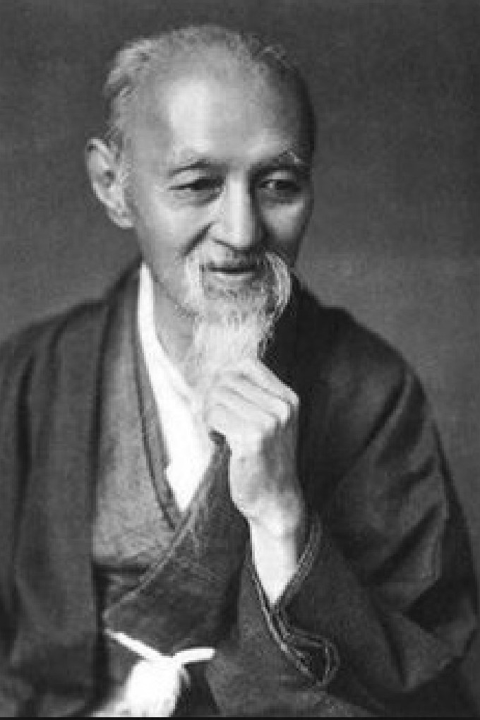 Photo of Murata Tanryô